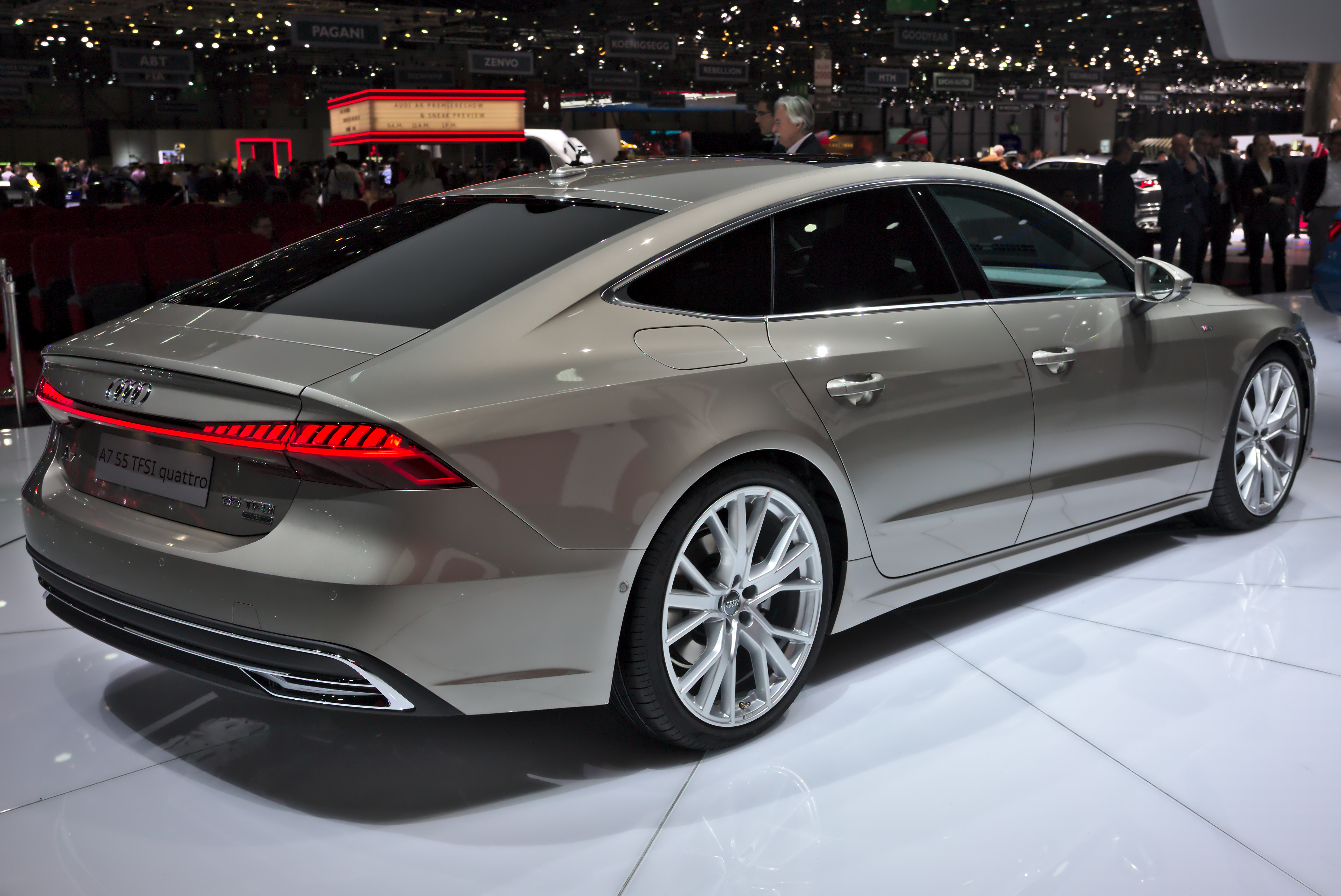 Audi A7 Sportback at Geneva Motorshow 2018